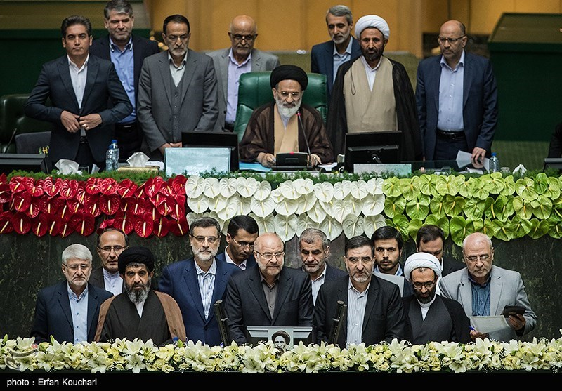 Eleventh House Permanent Electoral Board